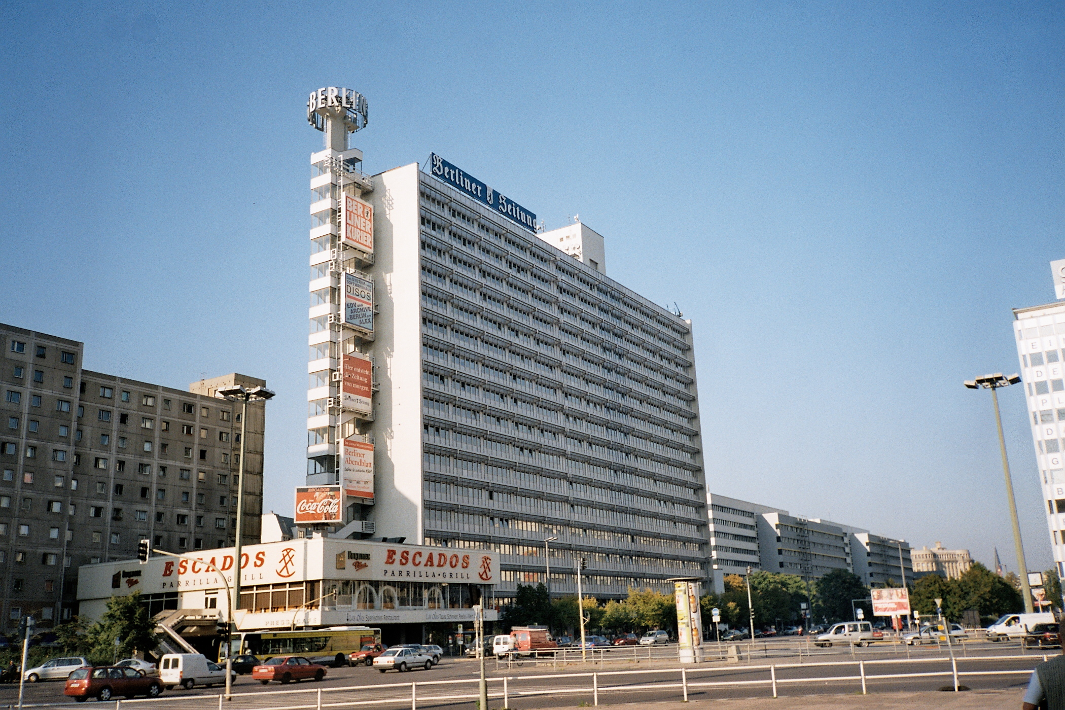 Description: Headquarter of Berliner Zeitung on Alexanderplatz in Berlin. Source: self-made. I release it into the public domain.